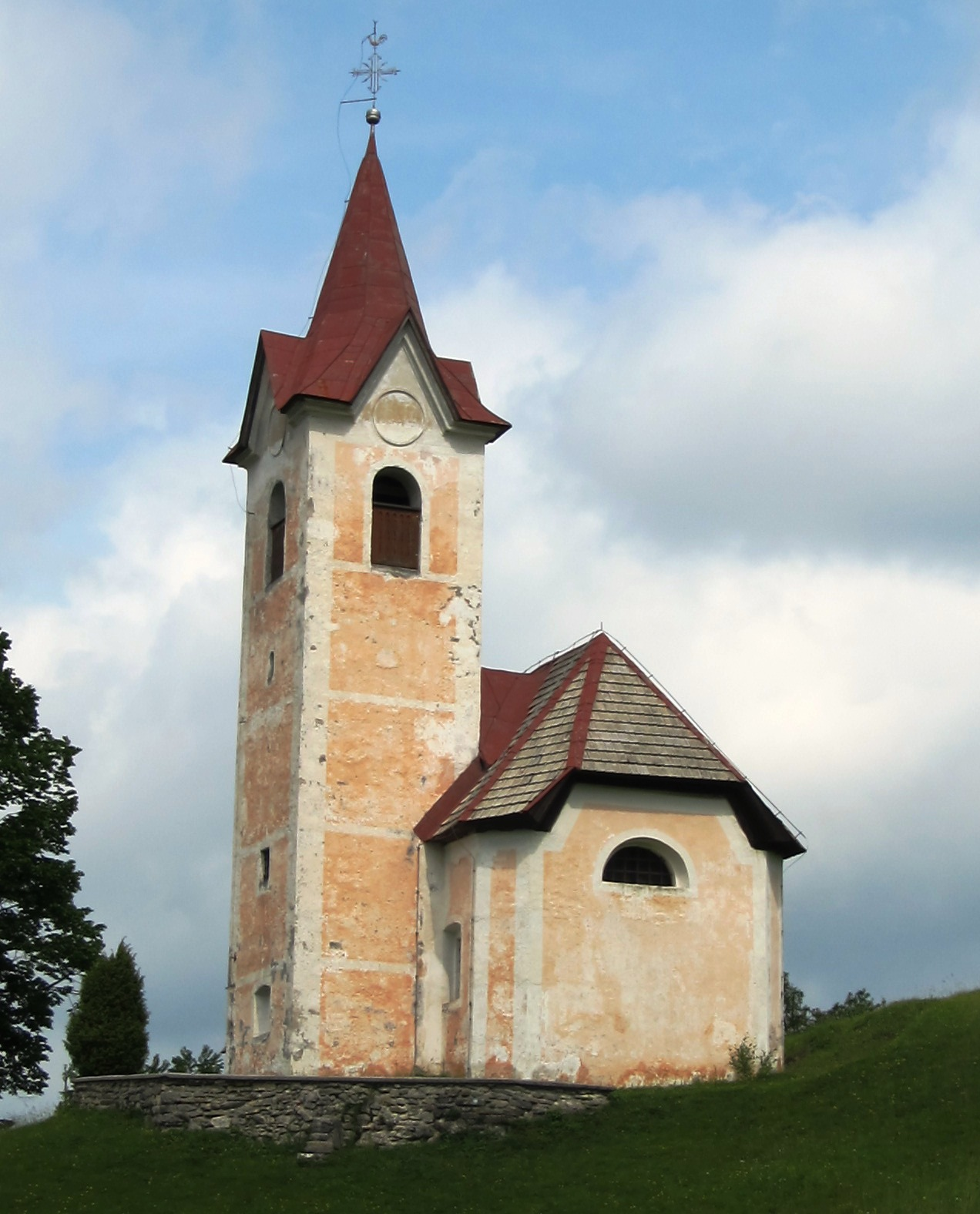 The Church of Saint Gertrude in Selo nad Polhovim Gradcem, Municipality of Dobrova–Polhov Gradec, Slovenia